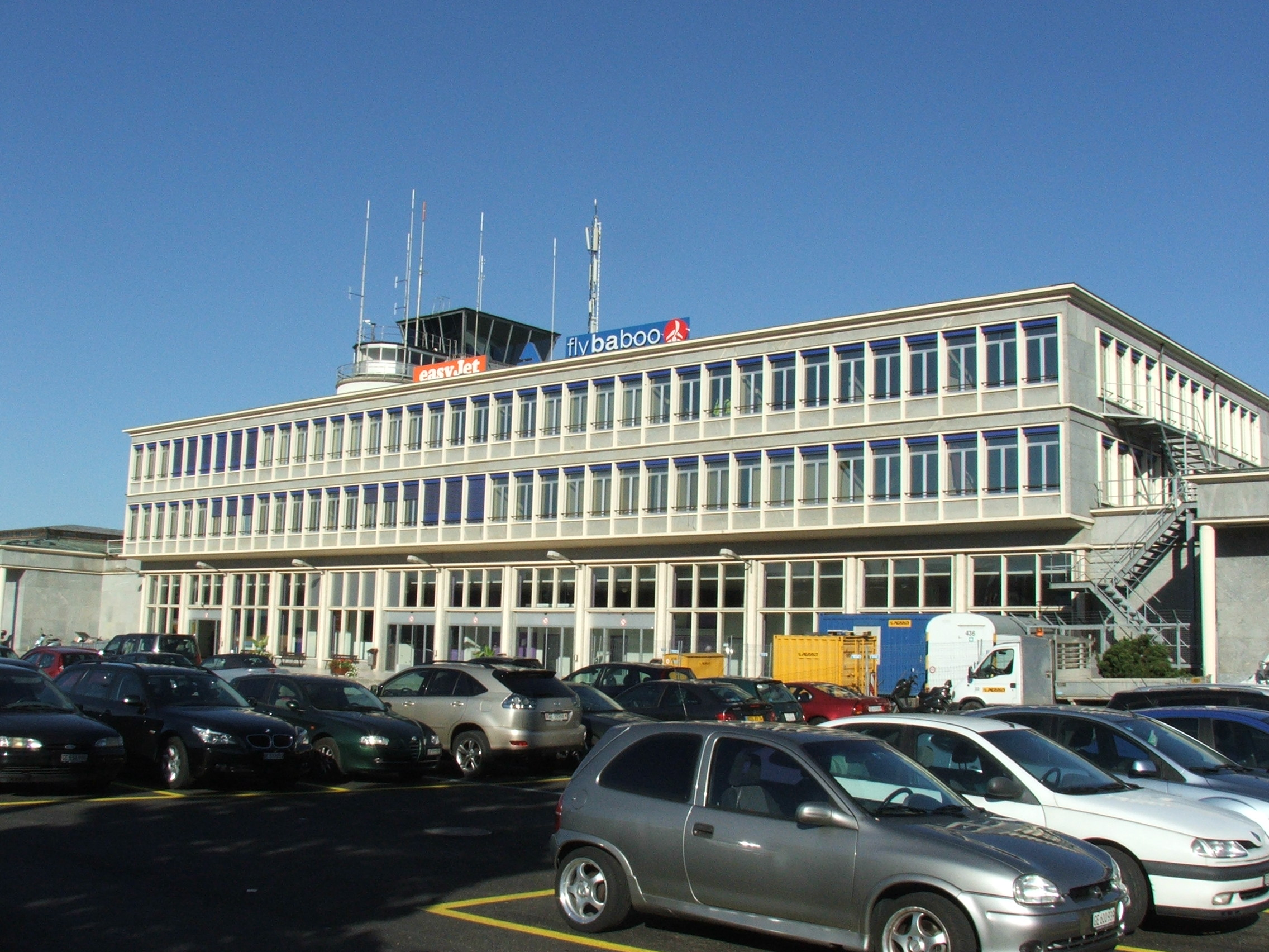 Old terminal building of Geneva International Airport, Switzerland now used for general aviation and charters.